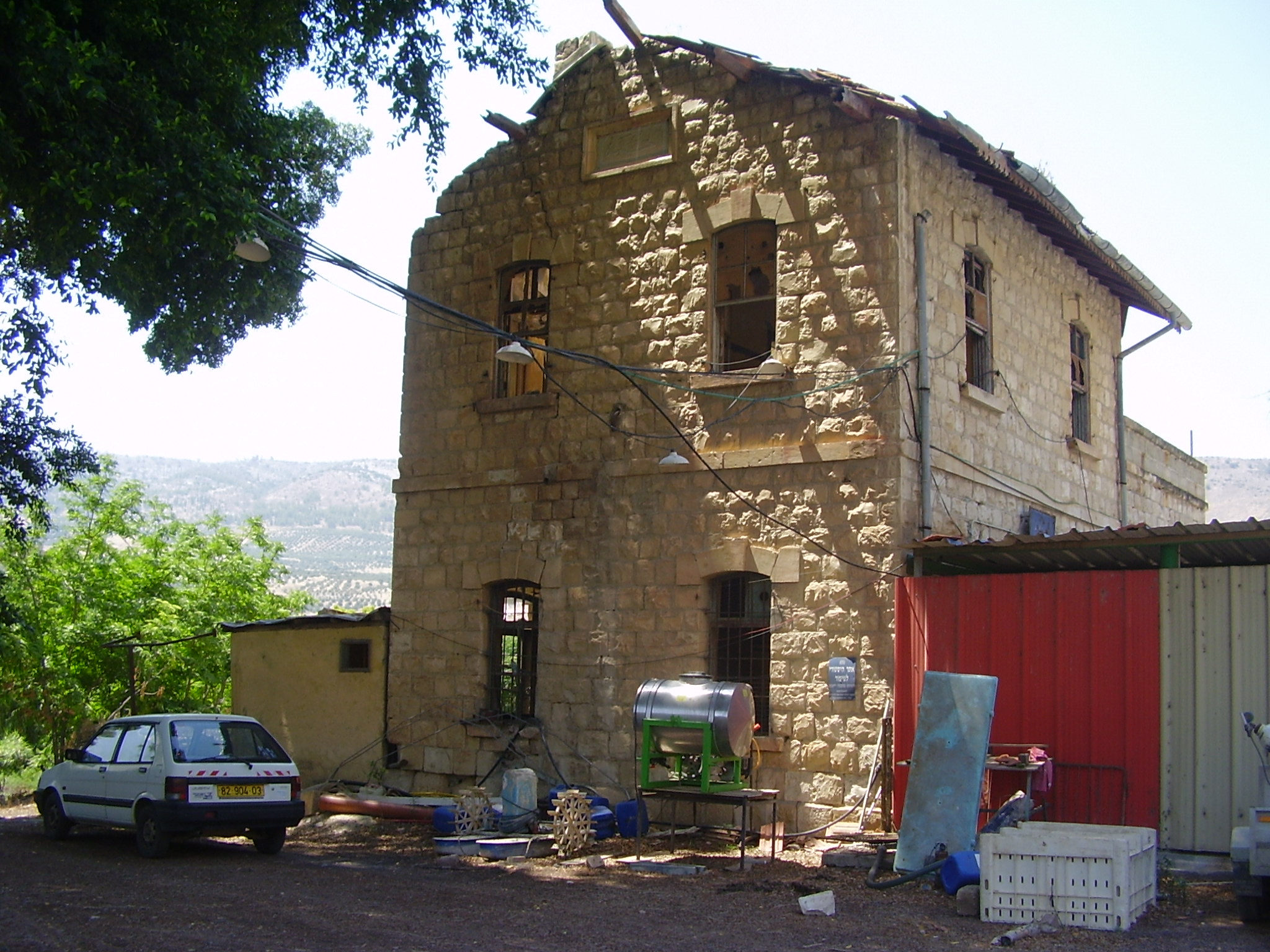 Turkish railway station at Hamat Gader